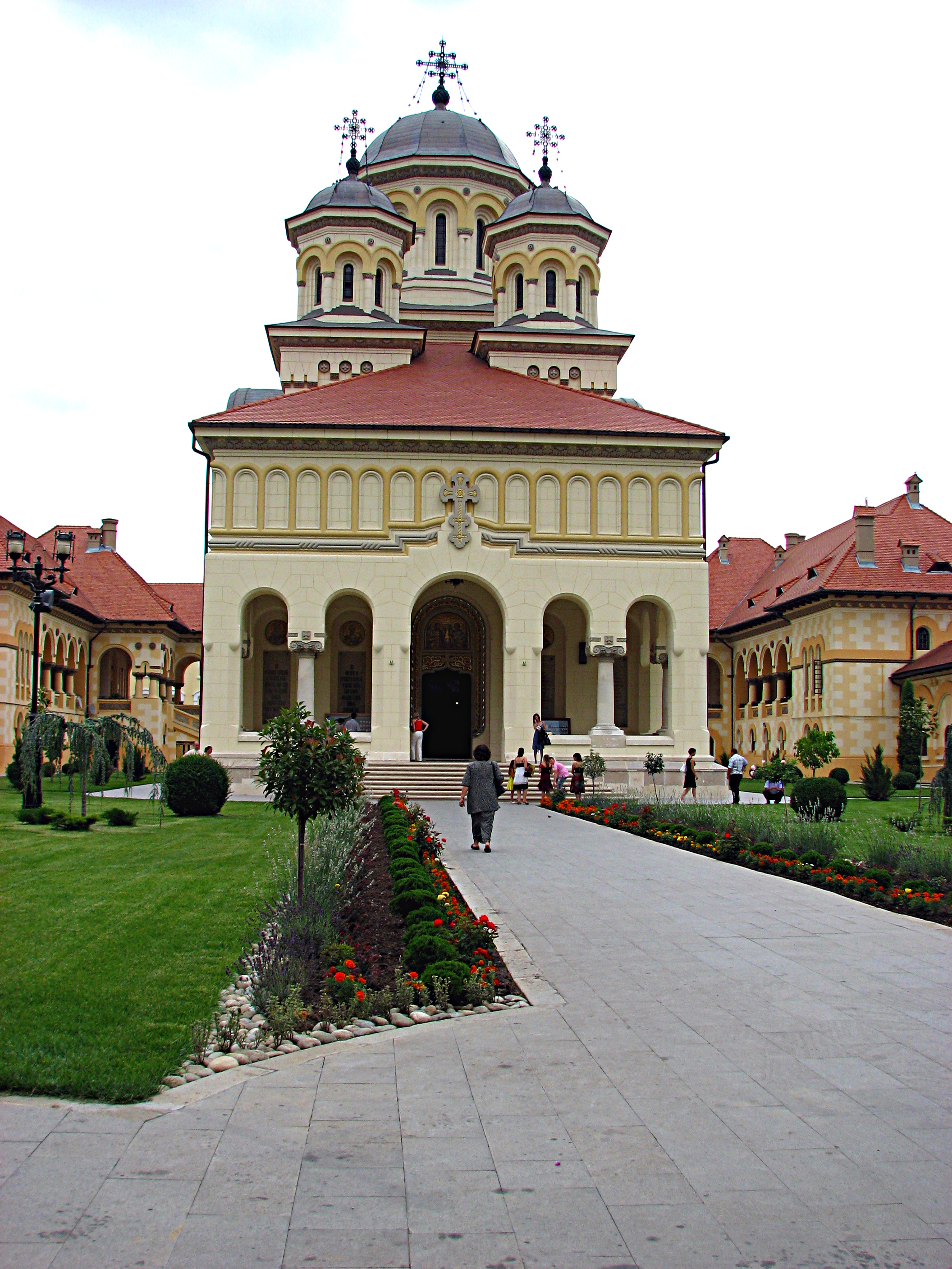 Alba Iulia Orthodox Cathedral 01